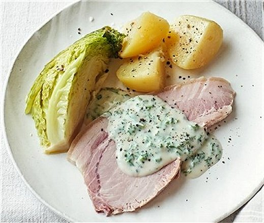 Boiled Bacon and Cabbage in Ireland is a traditional Irish dish that has become an iconic representation of Irish food